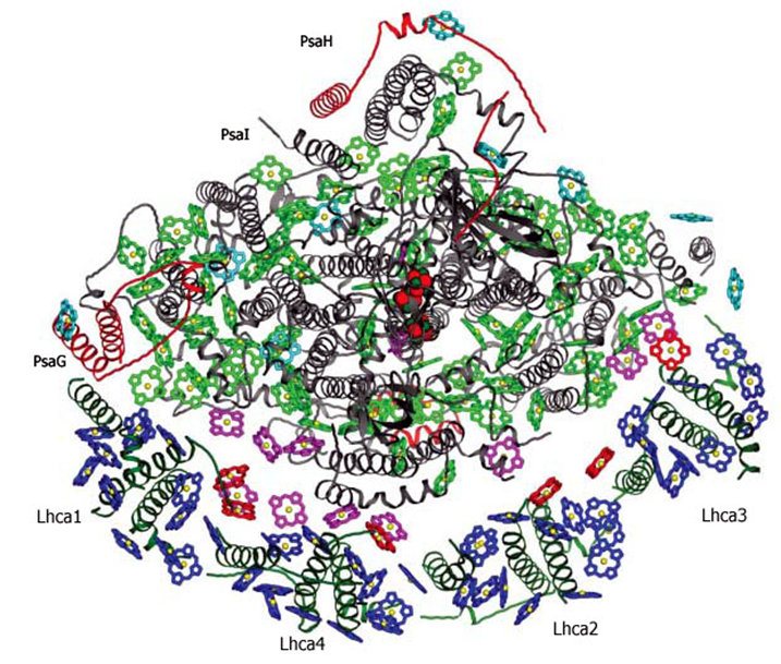 PCI and four subunits of it's external light harvesting complex.